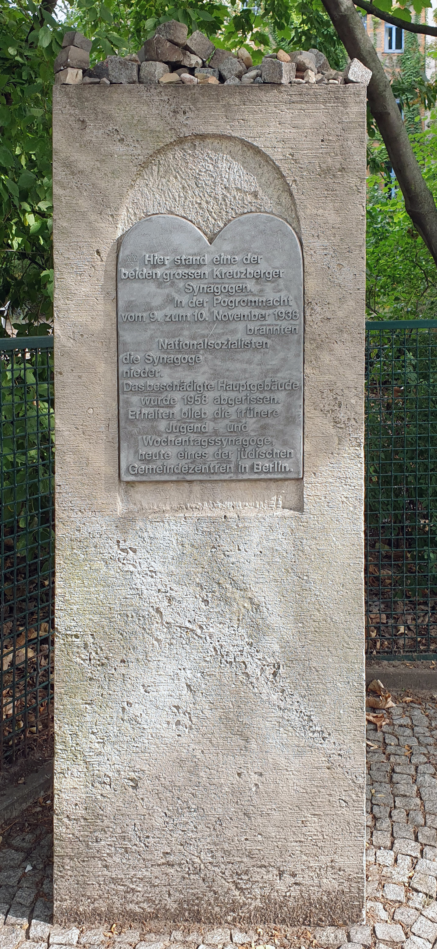 Memorial stone, Synagoge Kreuzberg, Fraenkelufer 10, Berlin-Kreuzberg, Germany